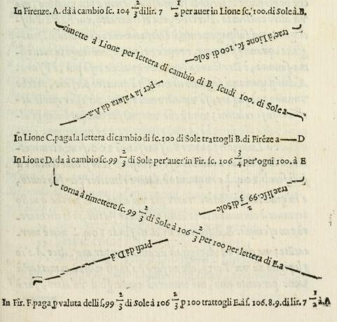 Diagram illustrating exchange rates from a work by Bernardo Davanzati.